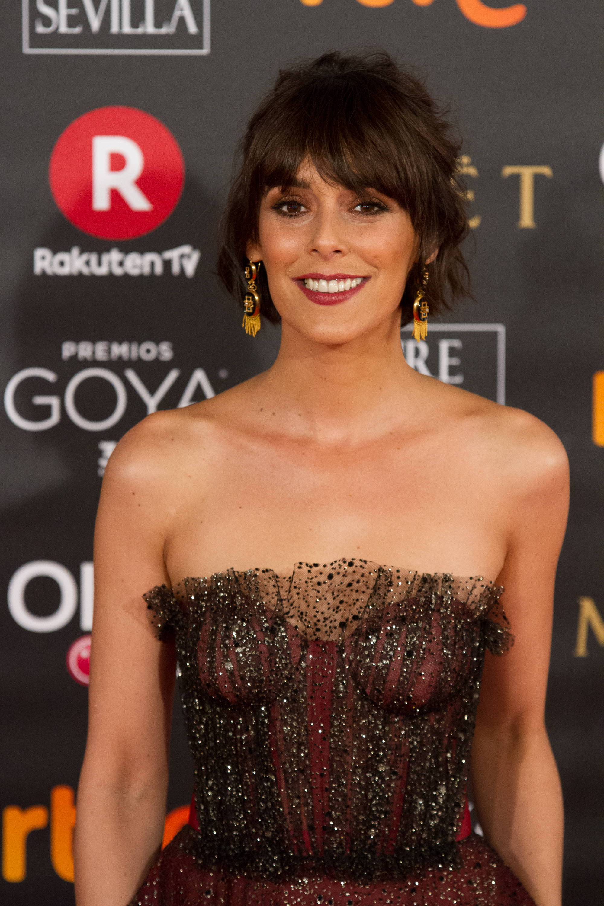 Belén Cuesta at the 32nd Goya Awards, 2018.